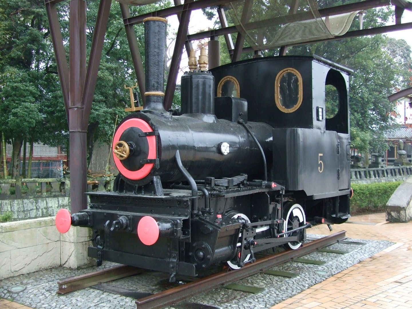 Nishi Nippon Railroad SL No.4 made by Orenstein & Koppel in 1911 This locomotive is preserved in Mizuma Town, Kurume, Fukuoka, Japan.